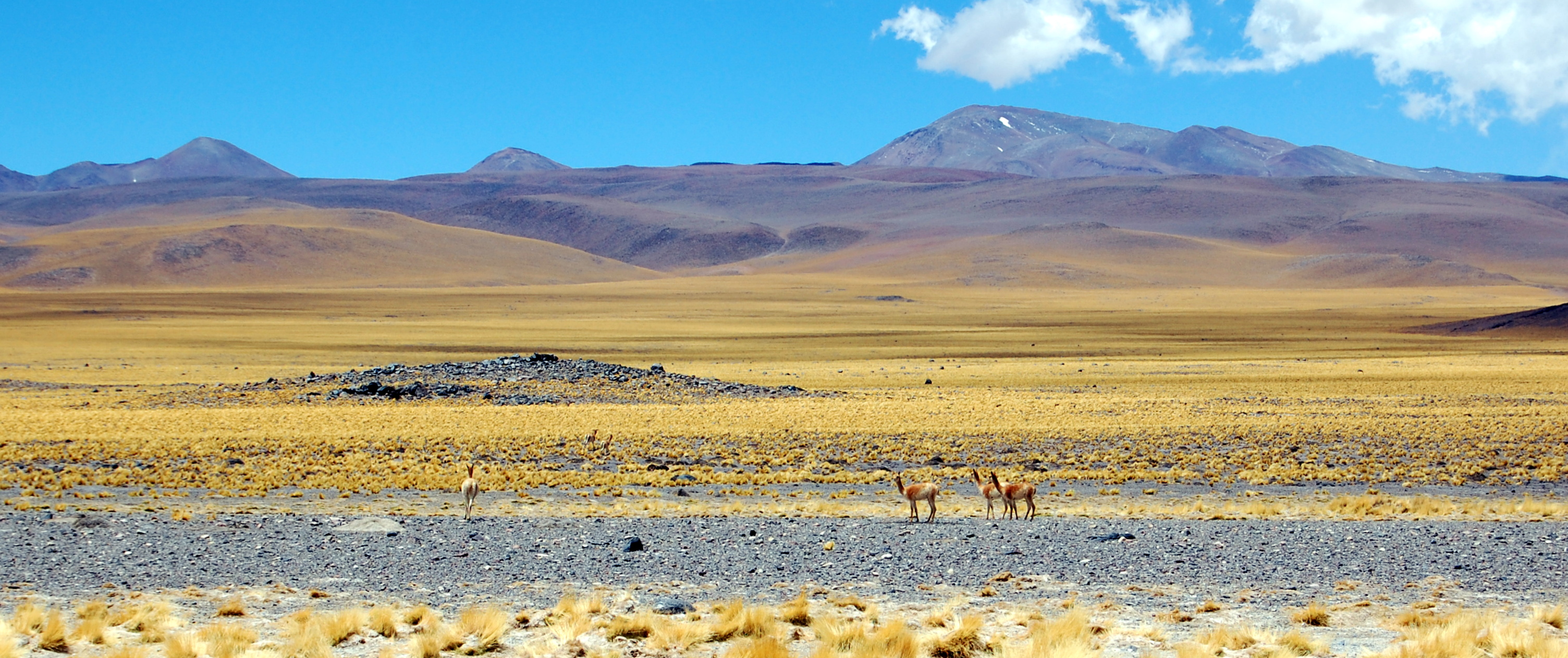 Vicunas near San Francisco pass, Catamarca, Argentina